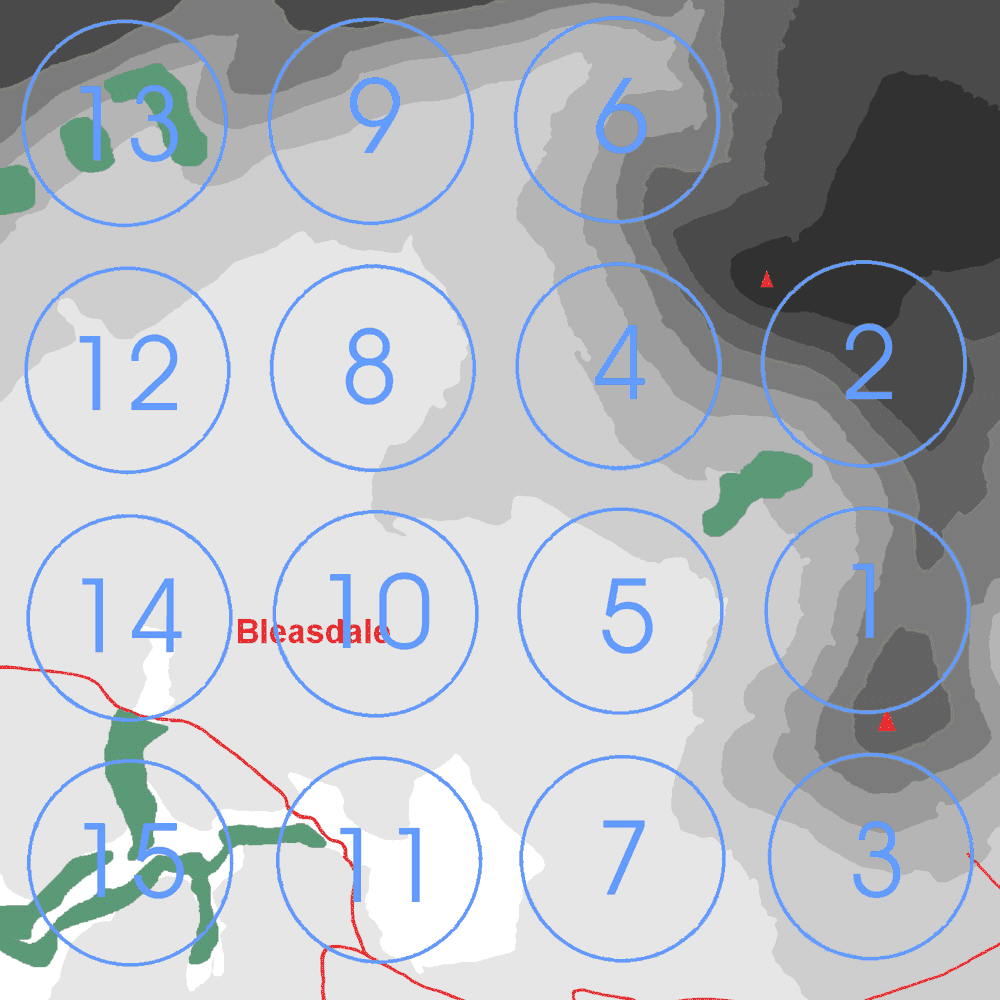 Map showing the location of the scoring cylinders in the west bowl at Parlick that are used for the Parlick Grid Challenge. Paraglider pilots attempt to fly to as many cylinders as possible, in order, without landing. Each cylinder is 800 metres across.